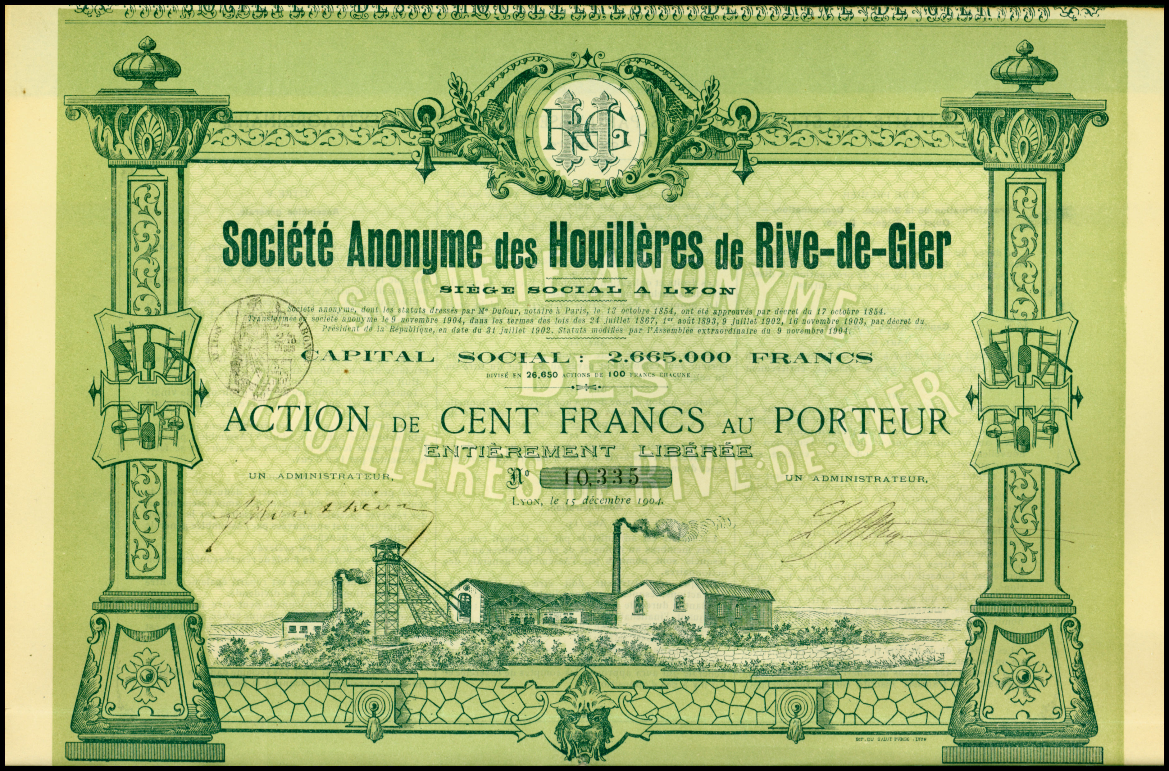 Share of the S.A. des Houillères de Rive-de-Gier, issued 15. December 1904